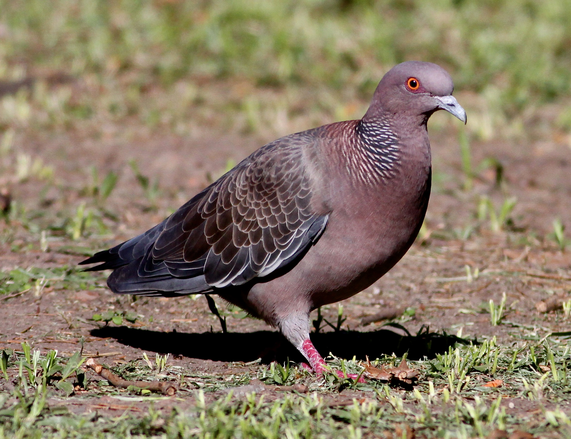 Picazuro Pigeon in Buenos Aires, Argentina.